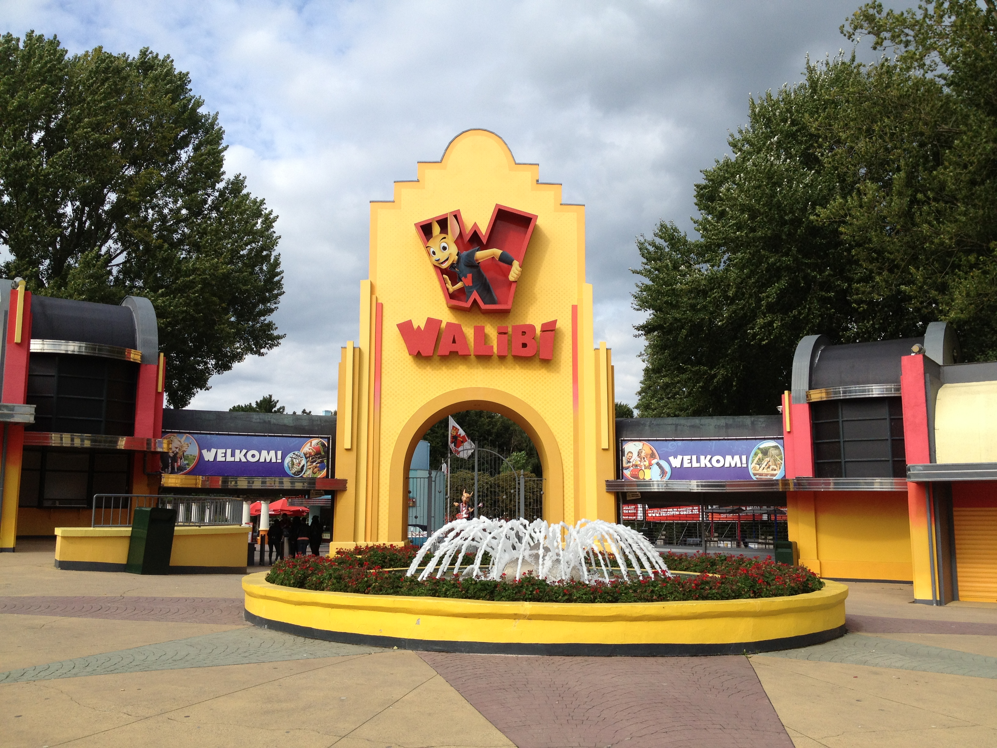 Walibi Holland entrance